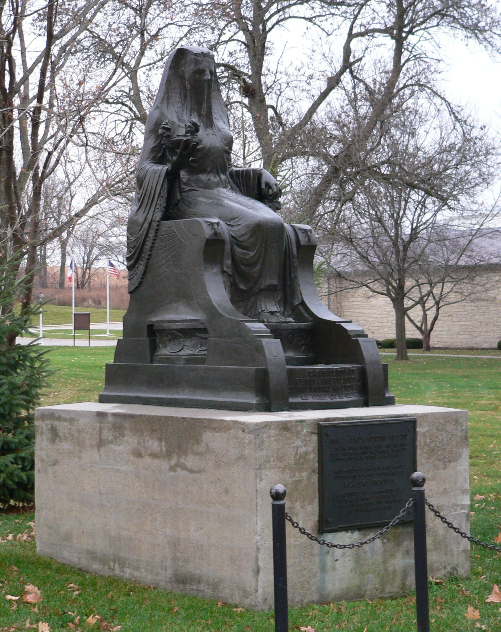 Statue of Isis by Auguste Puttemans (1866-1927). The statue was given to Herbert Hoover by the people of Belgium in 1922; it is currently located at the Herbert Hoover National Historic Site in West Branch, Iowa.